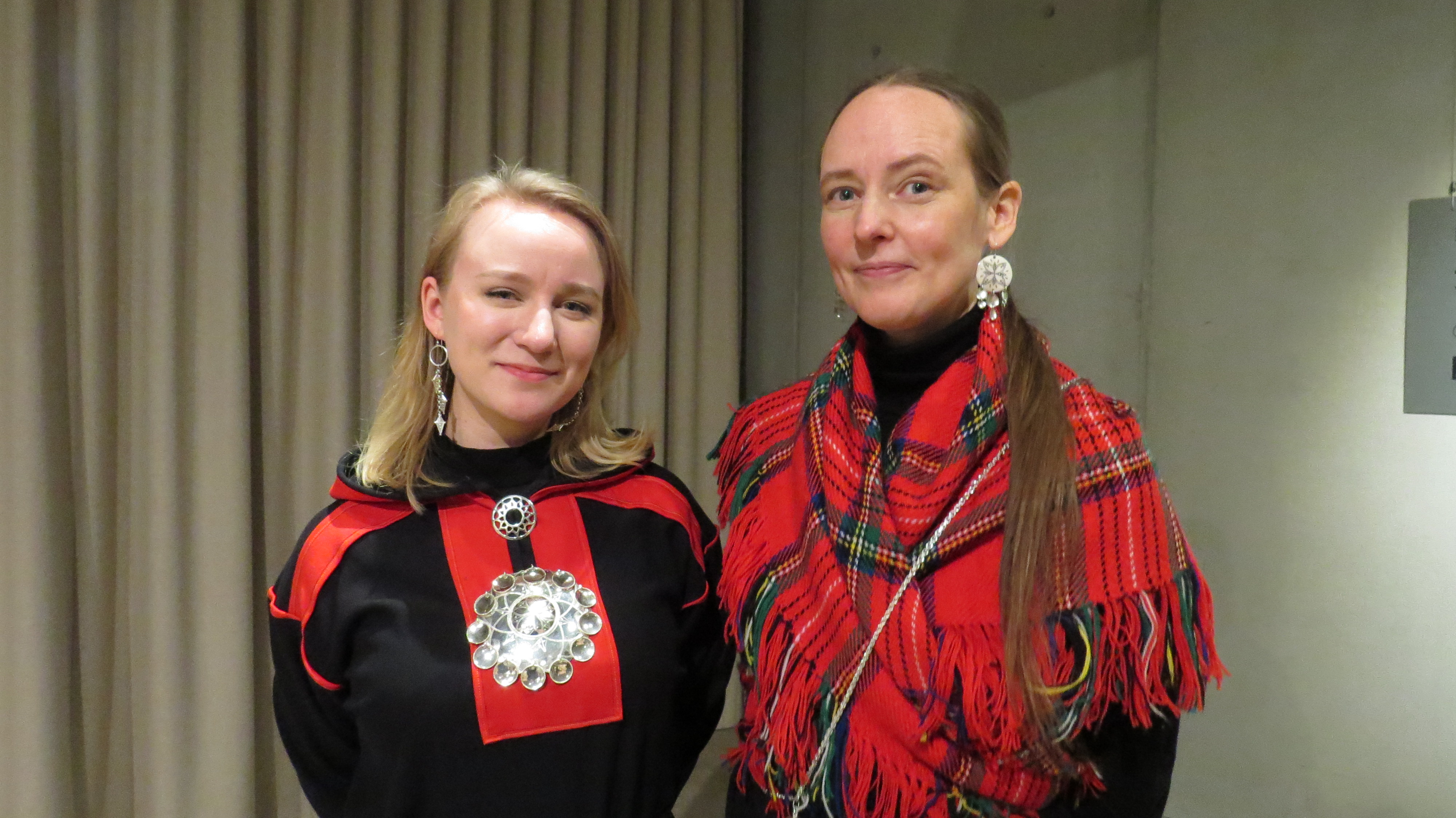 Petra Laiti and Outi Pieski at the EMMA museum in Espoo Finland January 6, 2019 at Pieski's Čuolmmadit exhibition